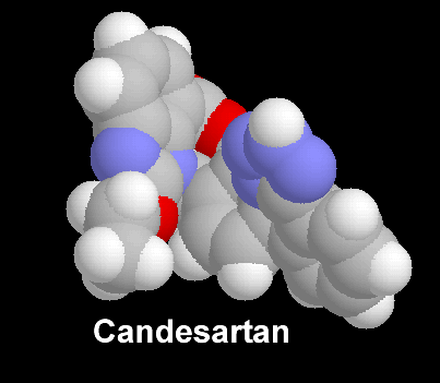 Created by Osni Moreira Filho on March 20, 2006.